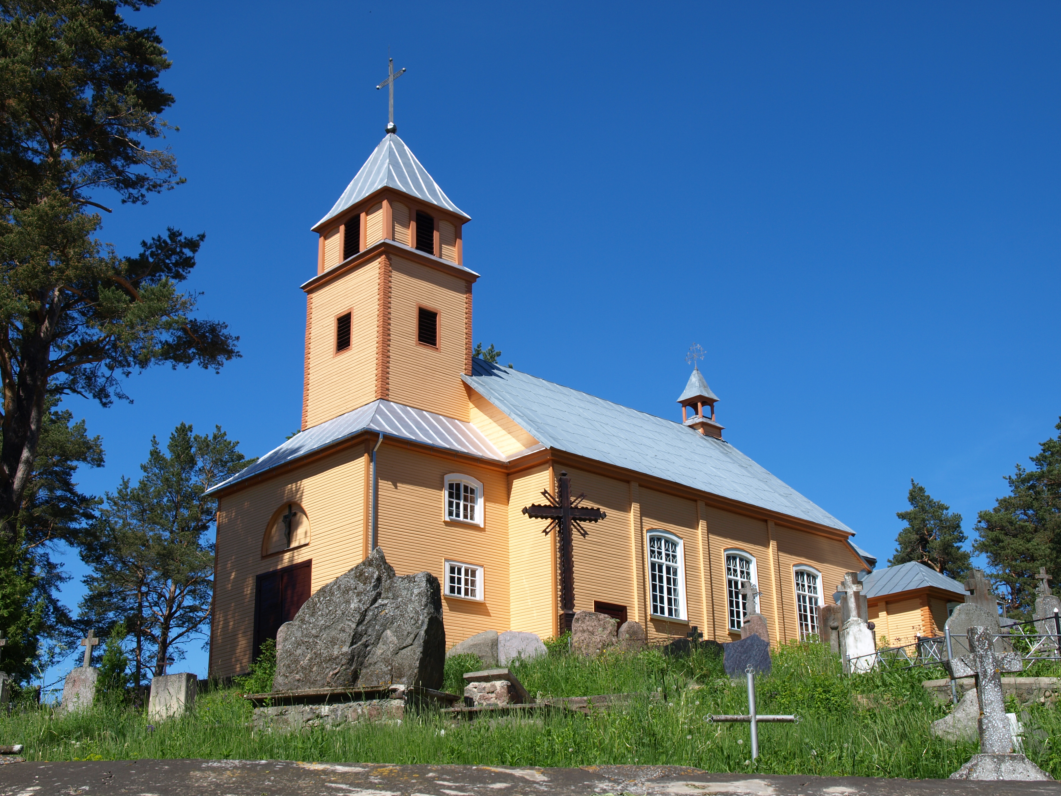 Gaidė church, Ignalina district, Lithuania